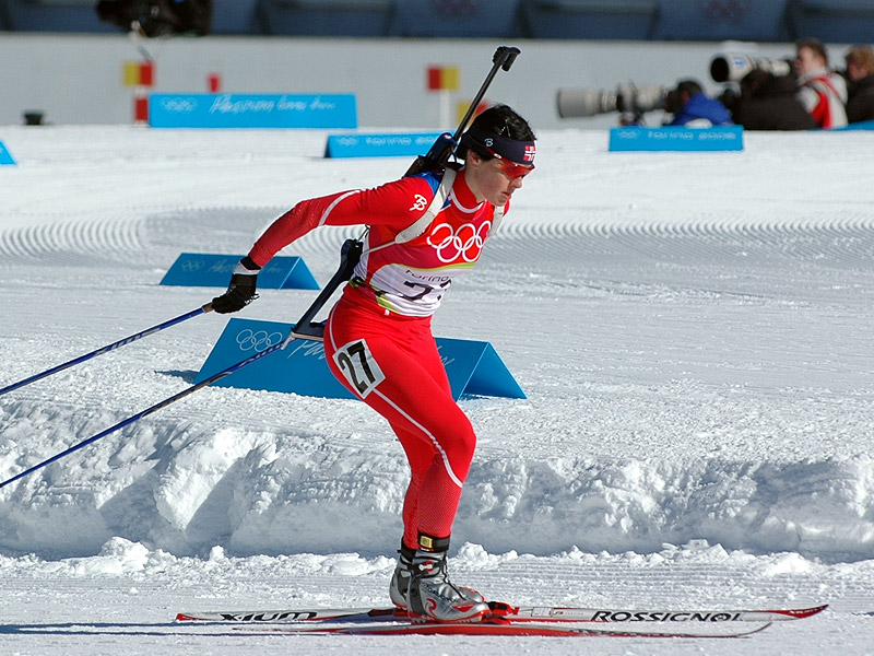 Liv Grete Skjelbreid Poirée at the 2006 Winter Olympics in Torino.